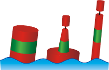 Lateral mark in IALA A for turn right, in IALA B for turn left.